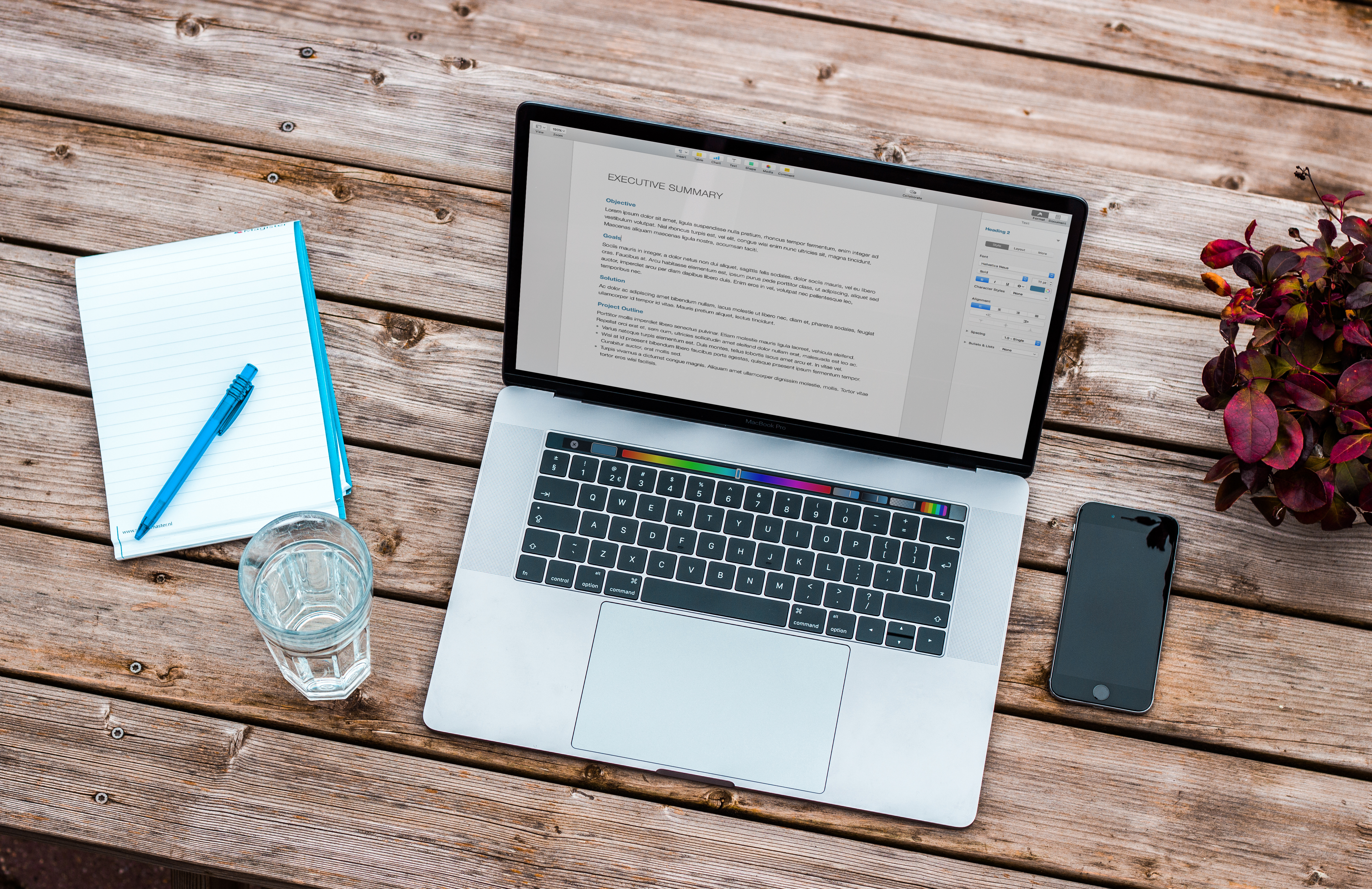 's-Hertogenbosch, Netherlands